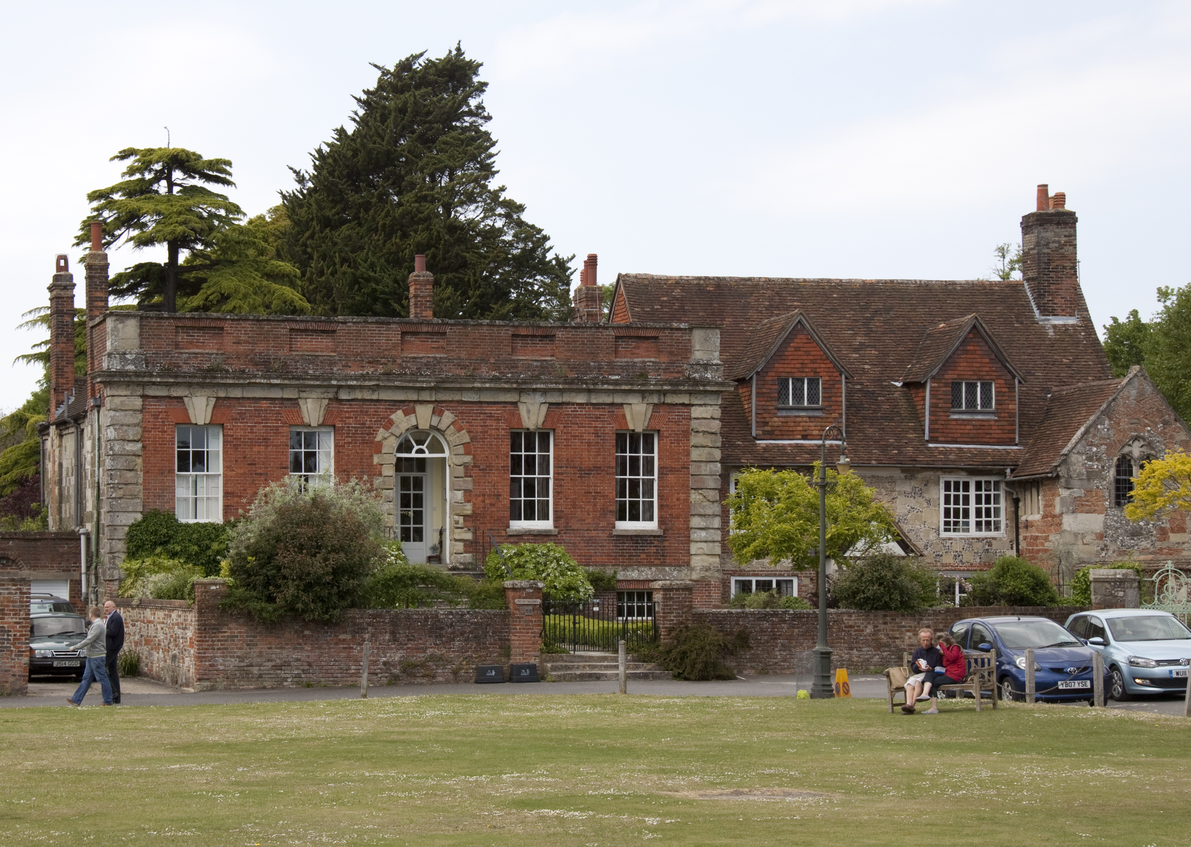 Former Canonry. Probably 1st built early 14th Century by Alexander de Hemingsby. The house has been partly rebuilt several times and now appears as two separate buildings.